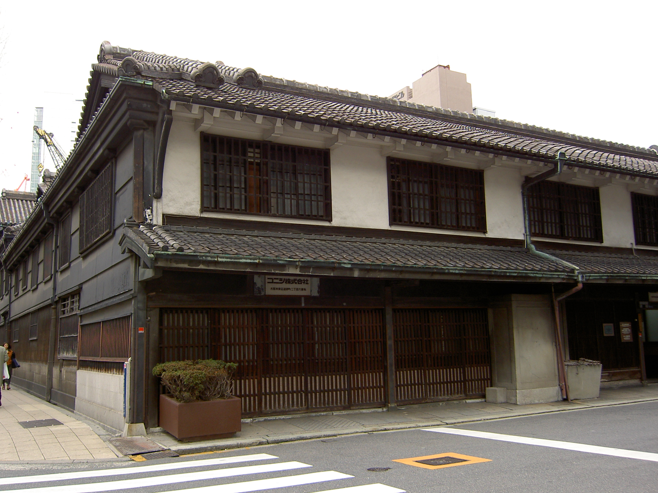 A company building of Konishi Gisuke Shoten. Doshomachi, Chuo-ku, Osaka-shi, Osaka, Japan.